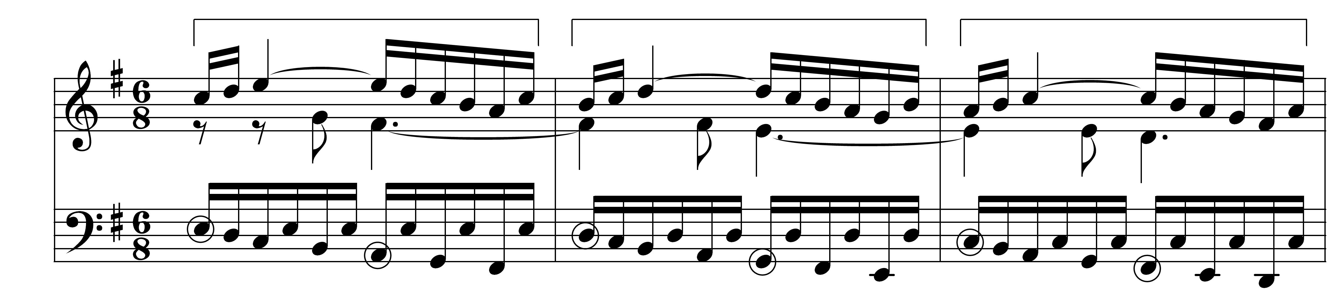 Musical example of a sequence from Johann Sebastian Bach's Fugue in G major BWV 860, mm. 17-19.